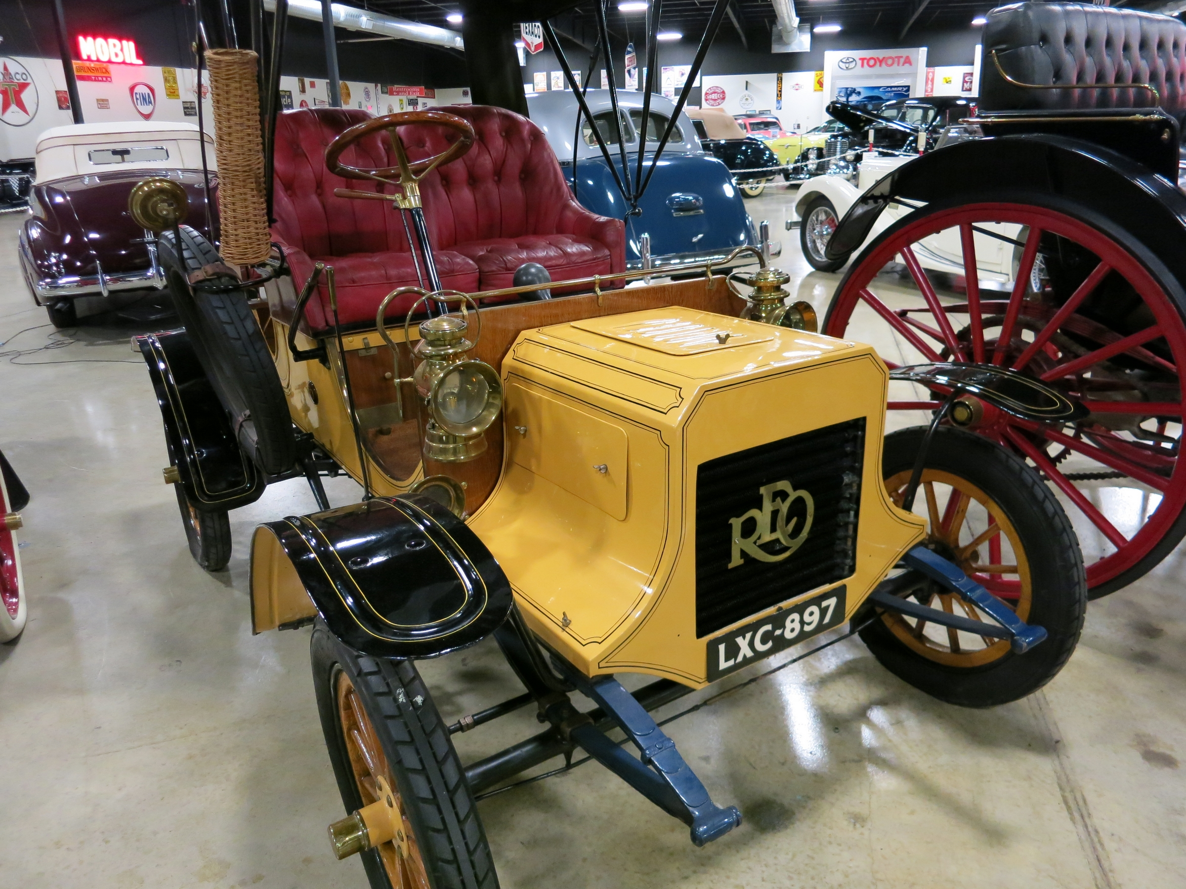 1904 REO Tupelo Automobile Museum Tupelo, Mississippi